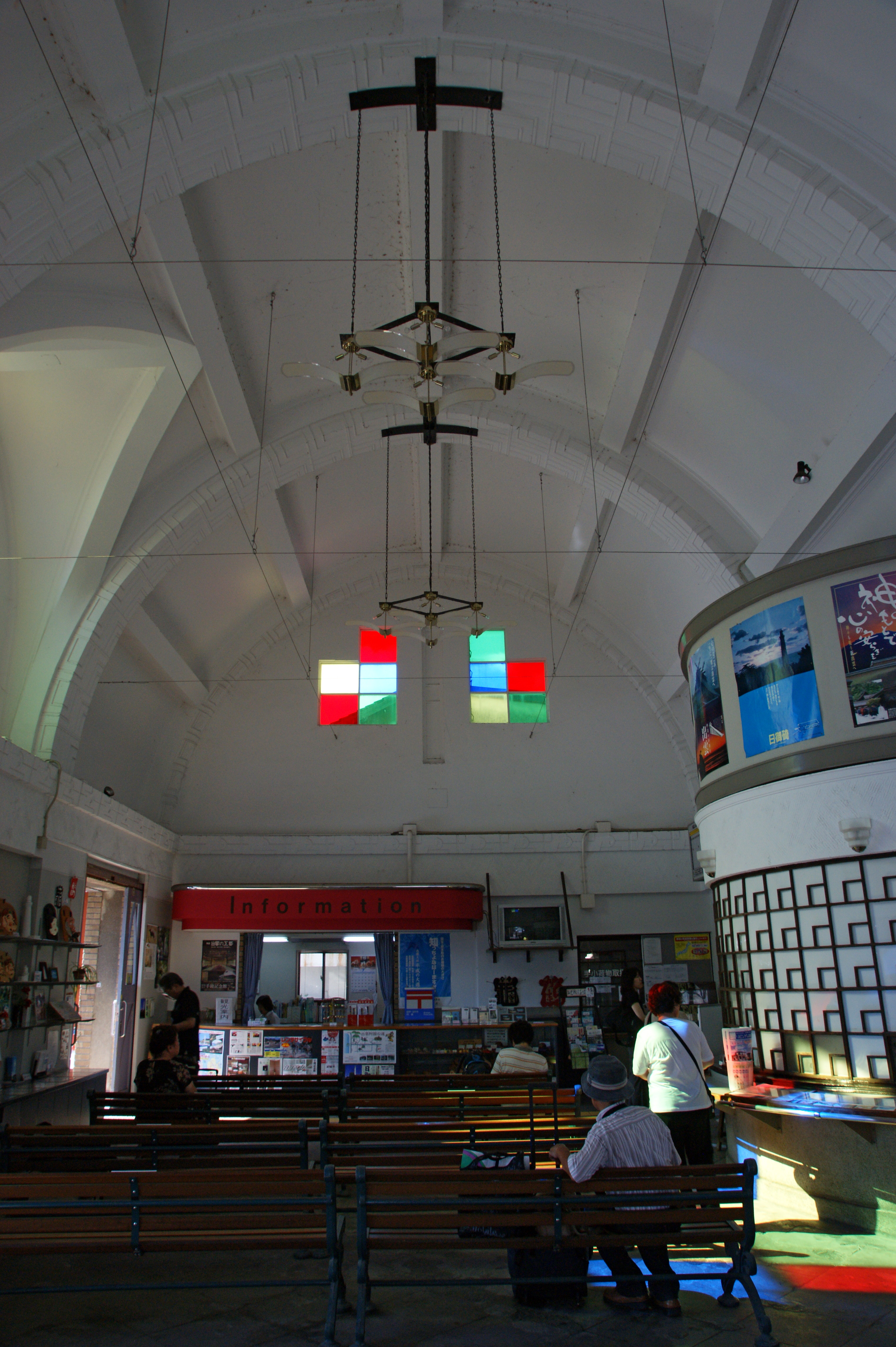 Izumo-taisha-mae Station in Izumo, Shimane prefecture, Japan